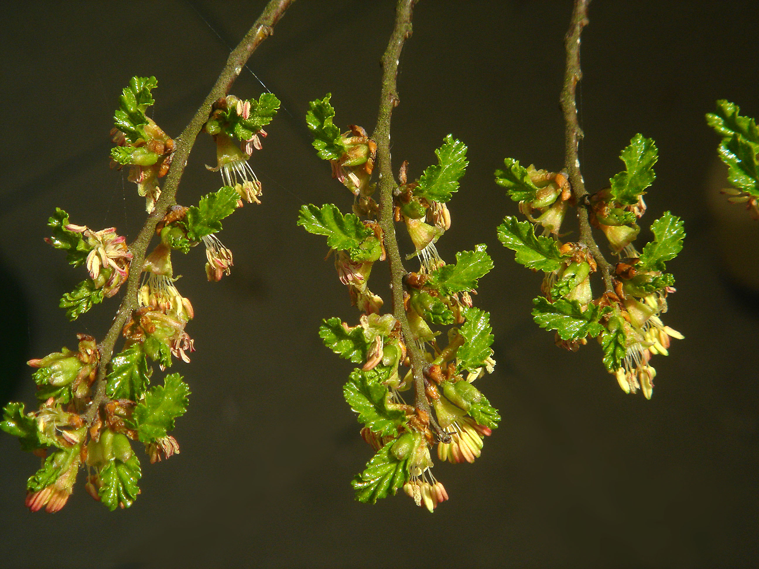 Antarctic Beech. Flowering.